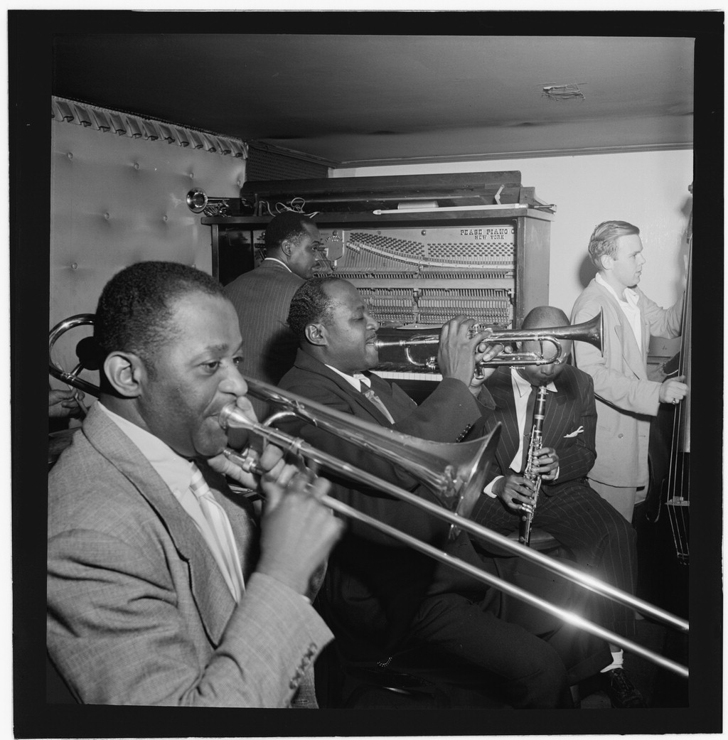 Gottlieb, William P., 1917-, photographer. [Portrait of Wilbur De Paris, Sammy Price, Sidney De Paris, Eddie (Emmanuel) Barefield, and Charlie Traeger, Jimmy Ryan's (Club), New York, N.Y., ca. July 1947] 1 negative : b&w ; 2 1/4 x 2 1/4 in. Notes: Gottlieb Collection Assignment No. 107 Reference print available in Music Division, Library of Congress. Purchase William P. Gottlieb Forms part of: William P. Gottlieb Collection (Library of Congress). Subjects: De Paris, Wilbur Price, Sammy De Paris, Sidney Barefield, Eddie (Emmanuel) Traeger, Charlie Jazz musicians--1940-1950. Trombonists--1940-1950. Trumpet players--1940-1950. Clarinetists--1940-1950. Fifty-second Street (New York, N.Y.)--1940-1950. Jimmy Ryan's (Club) Format: Portrait photographs--1940-1950. Group portraits--1940-1950. Film negatives--1940-1950. Rights Info: Mr. Gottlieb has dedicated these works to the public domain, but rights of privacy and publicity may apply. Repository: (negative) Library of Congress, Prints & Photographs Division, Washington D.C. 20540 USA, (reference print) Library of Congress, Music Division, Washington D.C. 20540 USA, Part Of: William P. Gottlieb Collection (DLC) 99-401005 General information about the Gottlieb Collection is available at Persistent URL: Call Number: LC-GLB23- 0203 This work is from the William P. Gottlieb collection at the Library of Congress. Rights and restrictions.In accordance with the wishes of William Gottlieb, the photographs in this collection entered into the public domain on February 16, 2010.